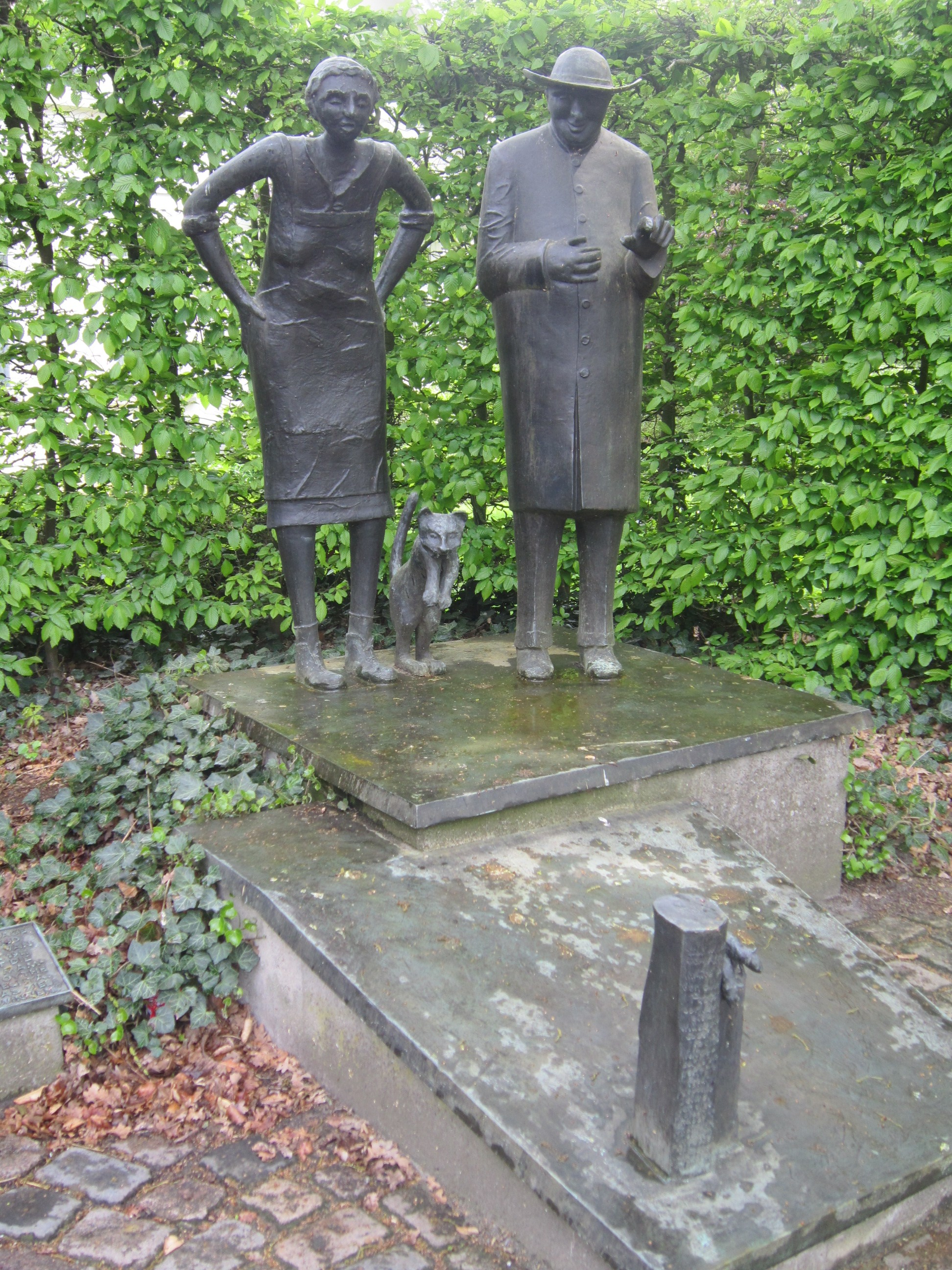 Oythe (City of Vechta): Bronze sculpture "Dei Müse van Aite" by Albert Bocklage